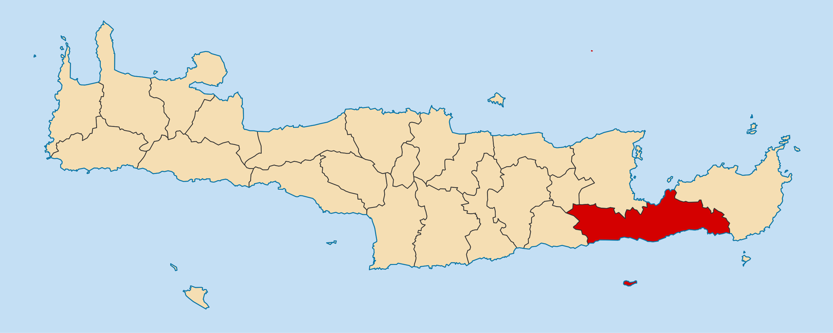 Locator map for Ierapetra municipality in Greek region Crete (2011)